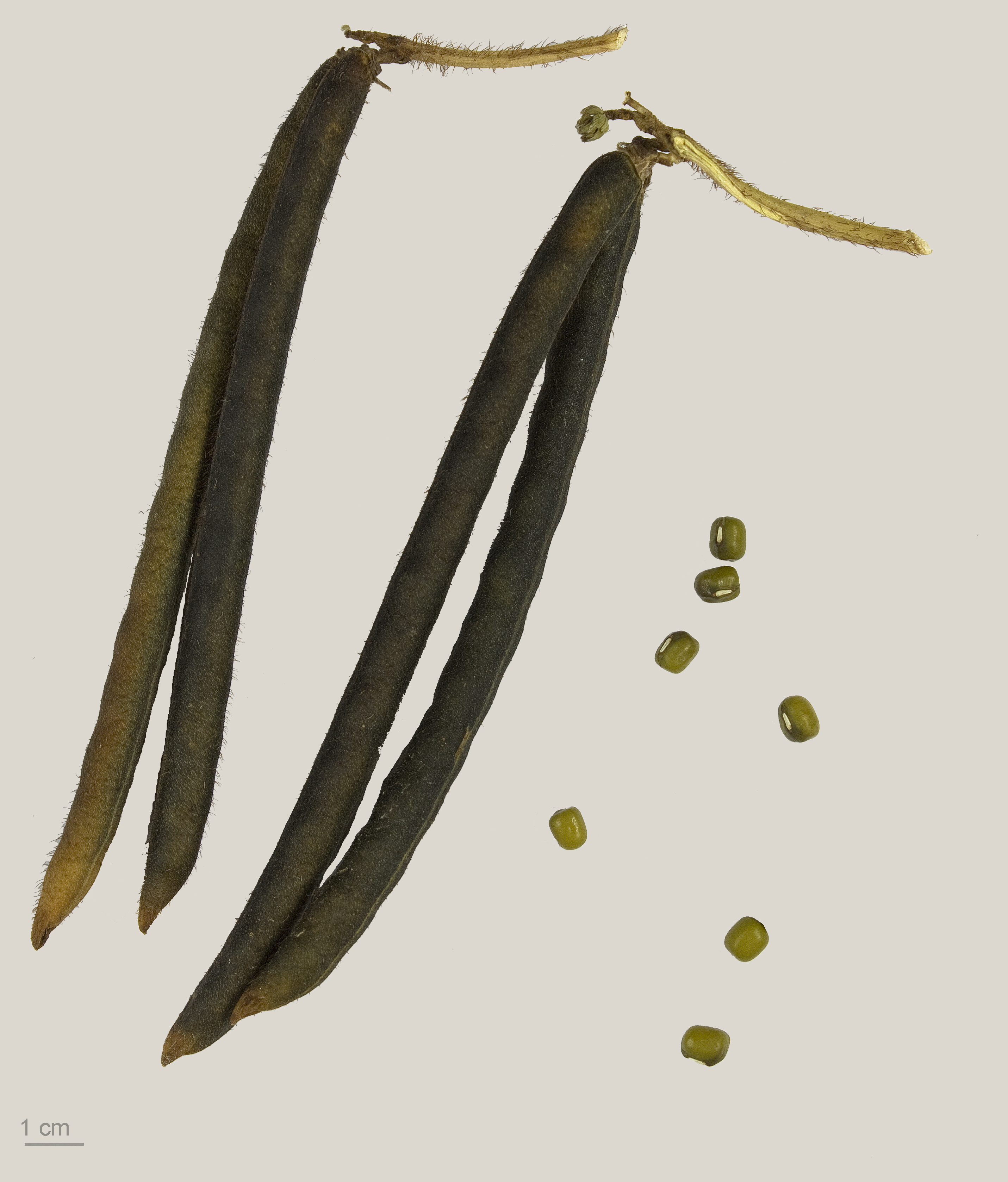 moong bean, fruits and seeds